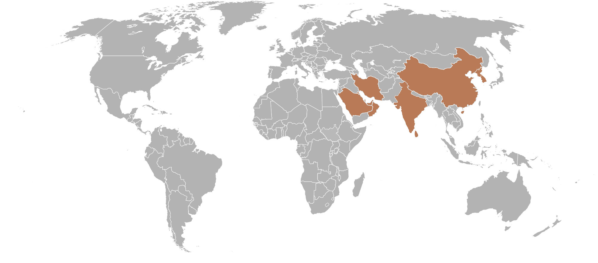 Countries that do not celebrate New Year’s Day on 1st January.